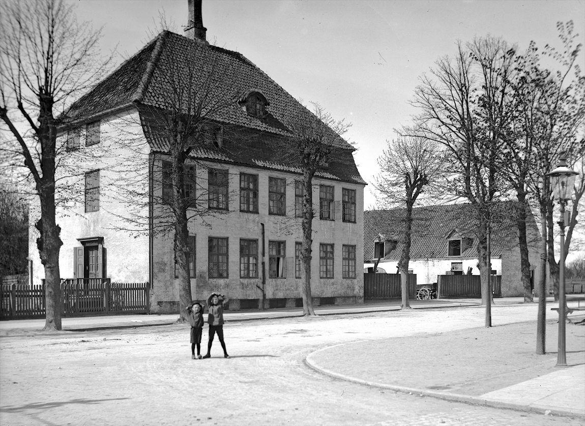 Store Godthåb in Frederiksberg, Denmark